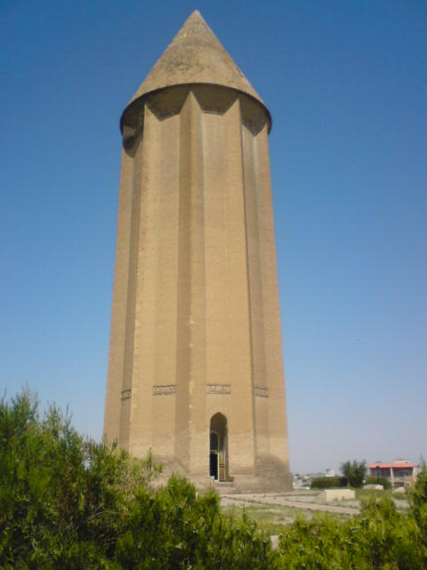 Gonbad-e Qabus tower in Gonbad-e Qabus city, Iran.